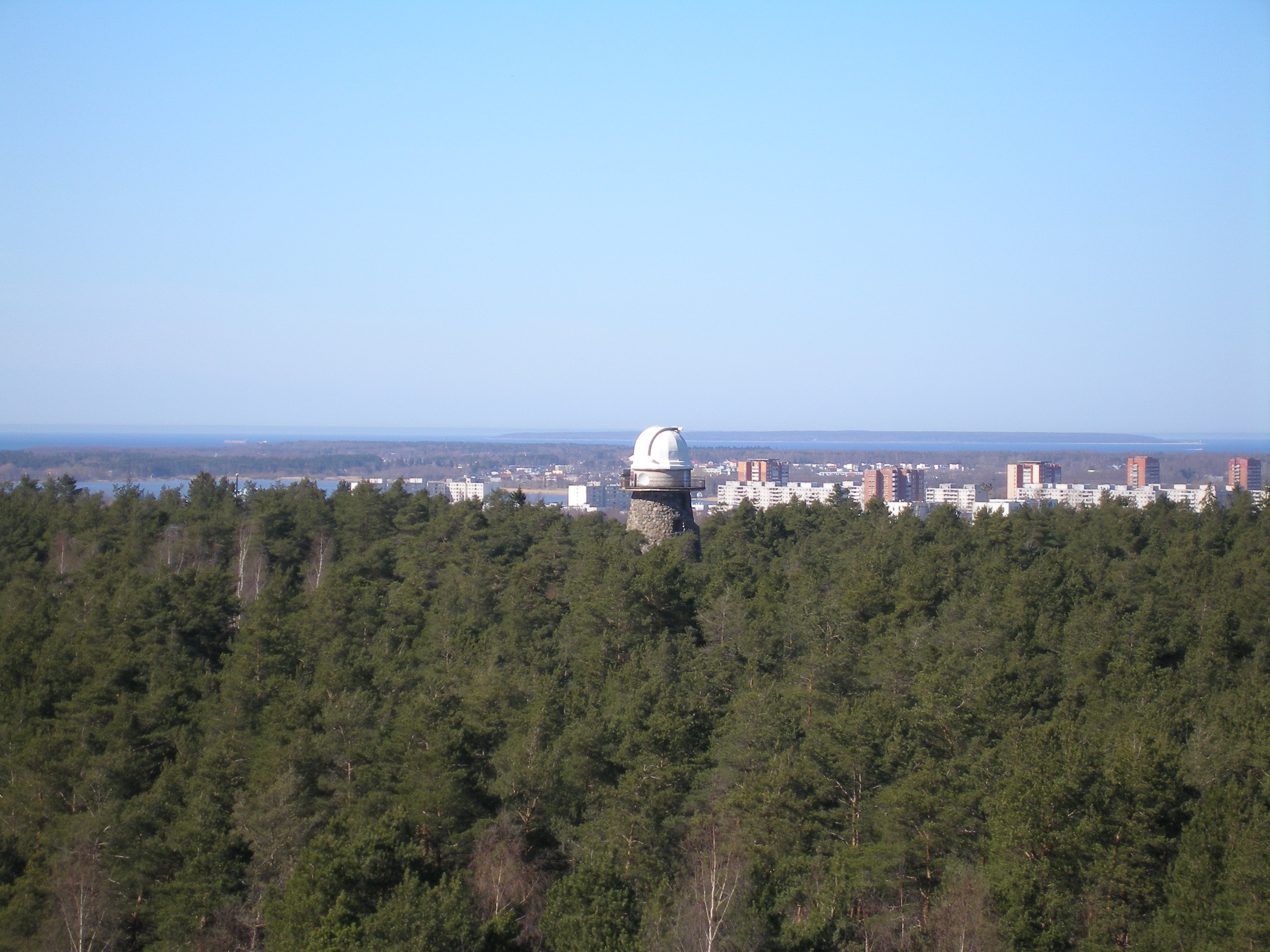 Tallinn observatory in the district of Nõmme in Tallinn. In the background are visible Väike-Õismäe, Harku Lake and Naissaar Island.